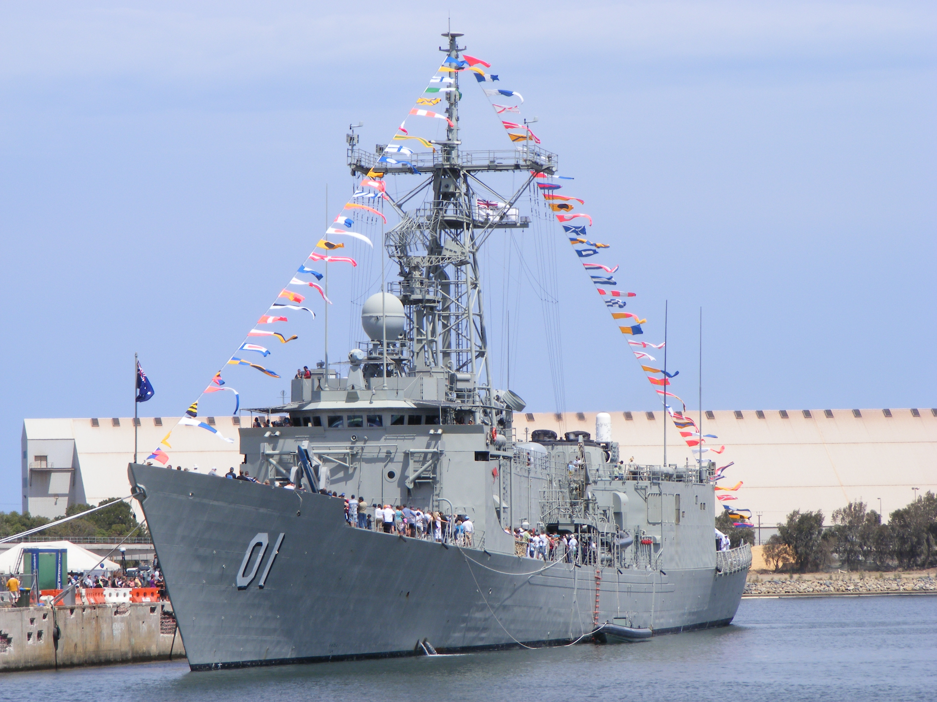 Front Port view of HMAS Adelaide (FFG 01) on an open day at Dock 2, Port Adelaide, South Australia